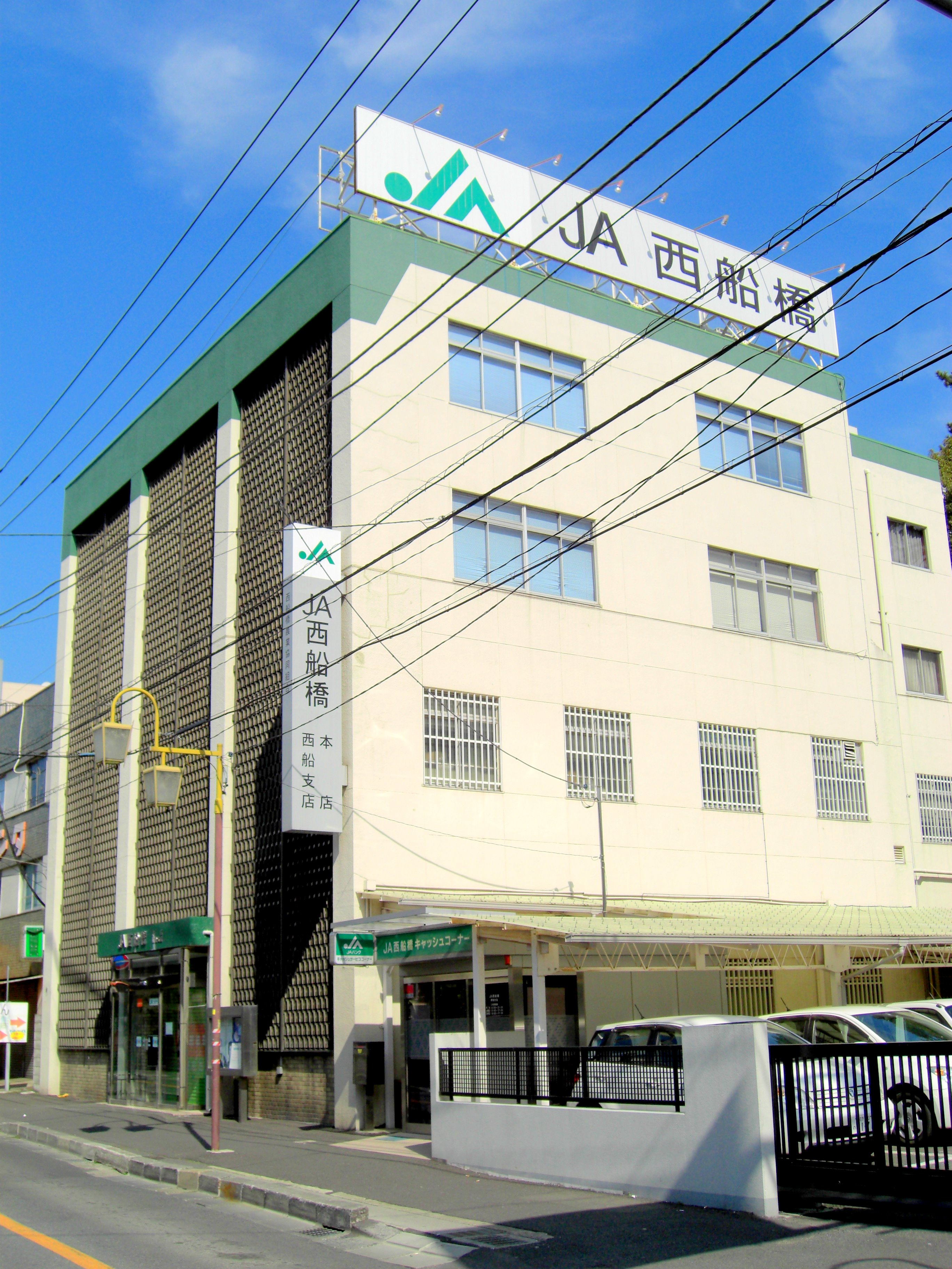 JA(Japan Agricultural Cooperatives) Nishifunabashi